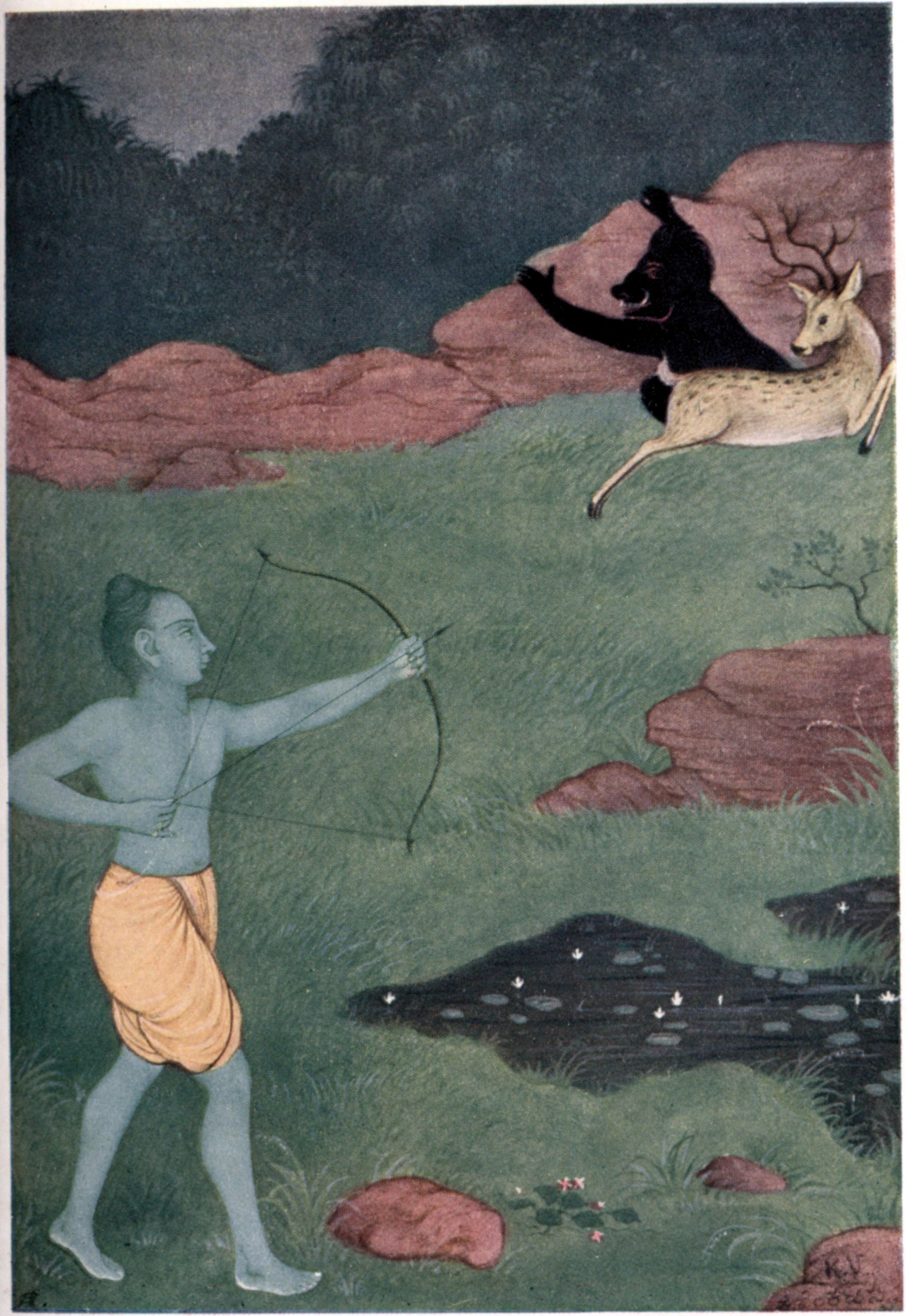 Myths of the Hindus & Buddhists (1914) p. 56: "The Death of Maricha" by K. Venkatappa